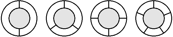 Kempe's choice of unavoidable set. Unfortrunately not all of them are reducible.